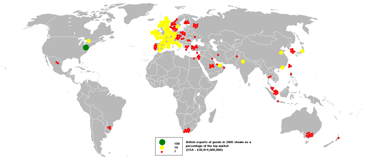 This bubble map shows the global distribution of UK exports of goods in 2005 as a percentage of the top market (USA - £30,914,000,000). This map is consistent with incomplete set of data too as long as the top market is known. It resolves the accessibility issues faced by colour-coded maps that may not be properly rendered in old computer screens. Data was extracted on 25th June 2007 from Based on :Image:BlankMap-World.png